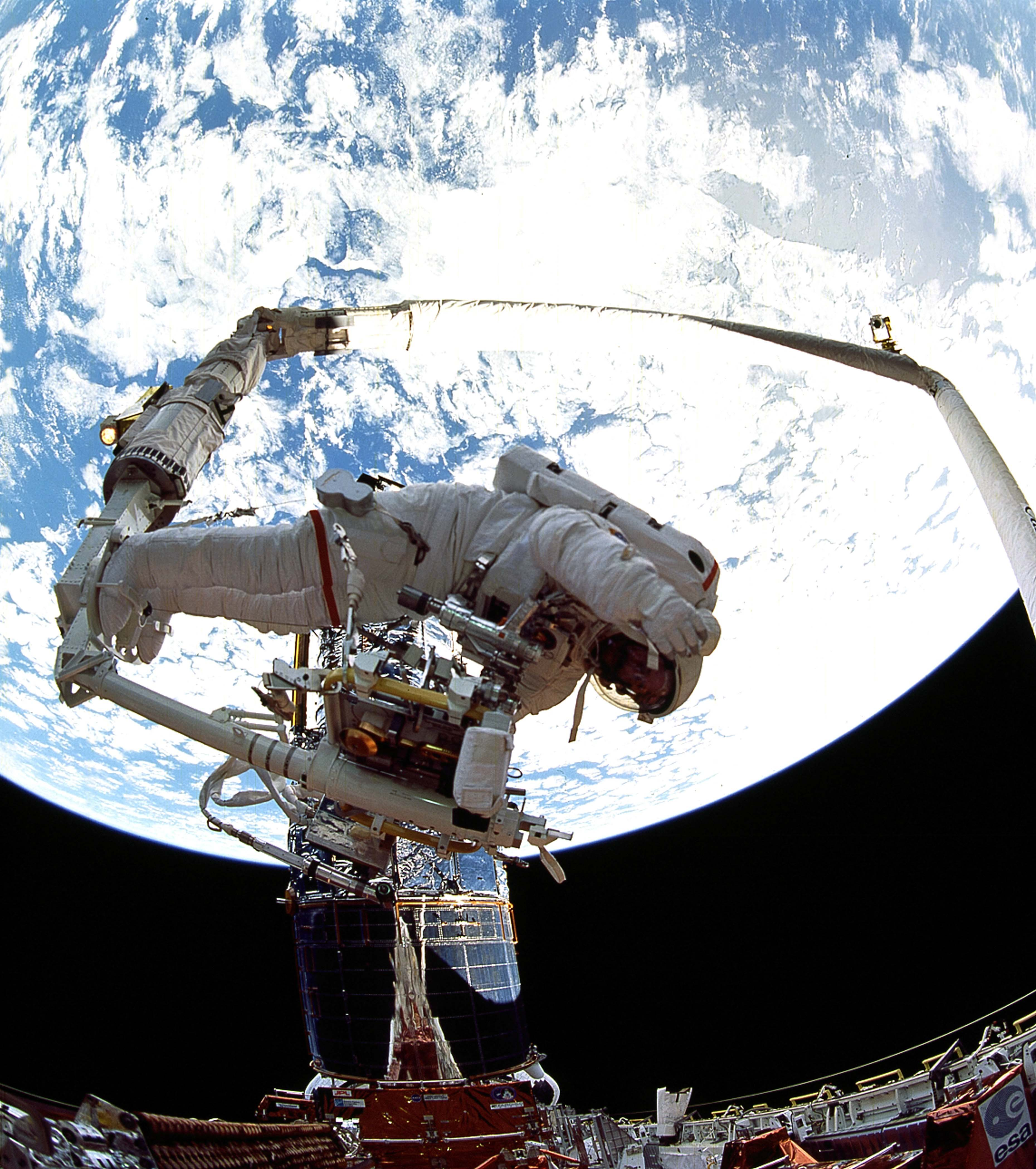 Astronaut Jeffrey A. Hoffman, in Dec. 1993, signals directions to European Space Agency astronaut Claude Nicollier (out of frame), as the latter controls the Canadarm during the third of five spacewalks on the Hubble Space Telescope servicing mission. Astronauts Hoffman and F. Story Musgrave earlier had changed out the Wide Field\Planetary Camera (WF\PC).